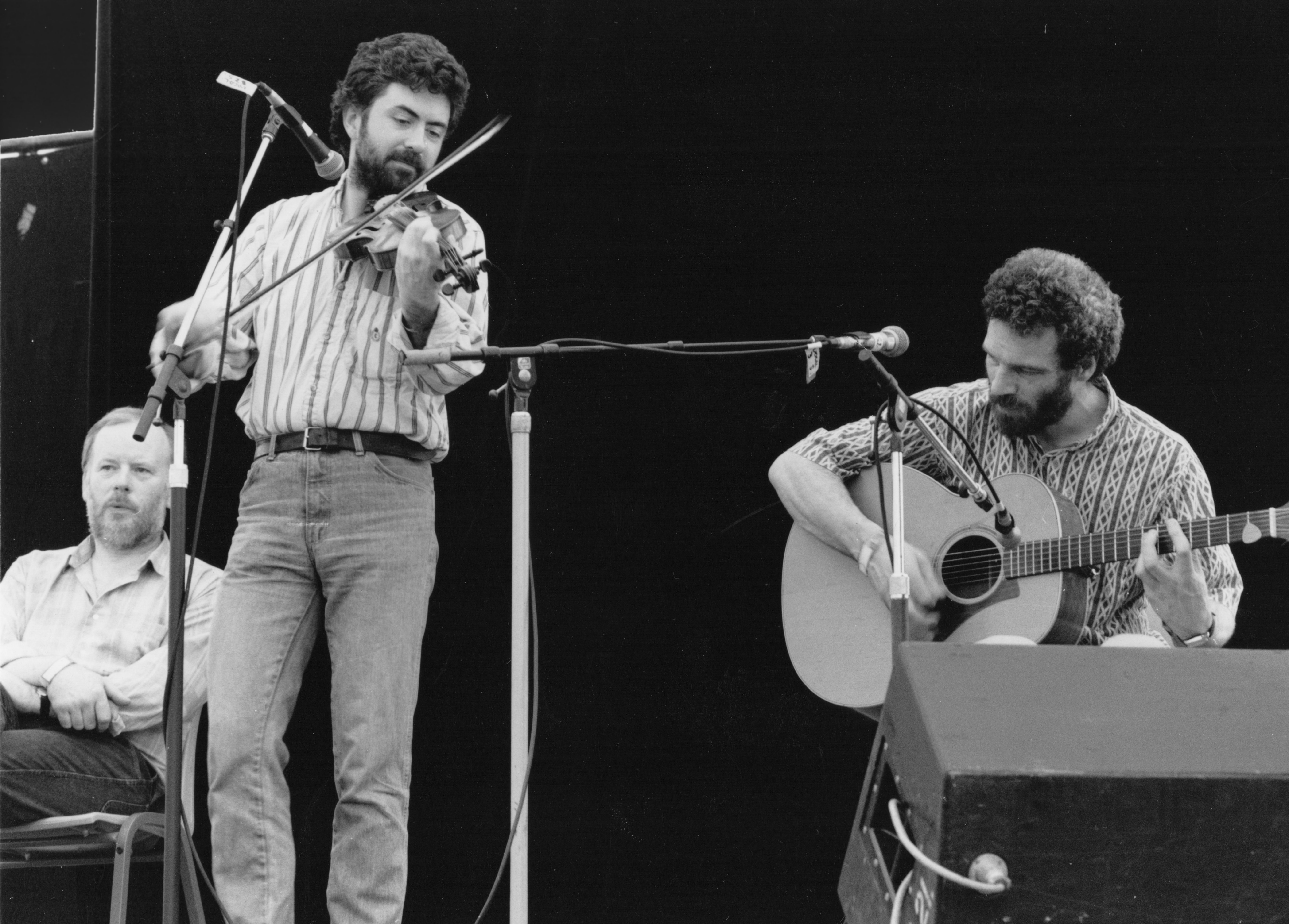 Irish folk trio "Skylark" on stage at the 1989 Port Fairy Folk Festival, Australia. L-R: Len Graham (singer); Gerry O'Connor (violin); Garry Ó Briain (guitar). (Tony Rees photograph)